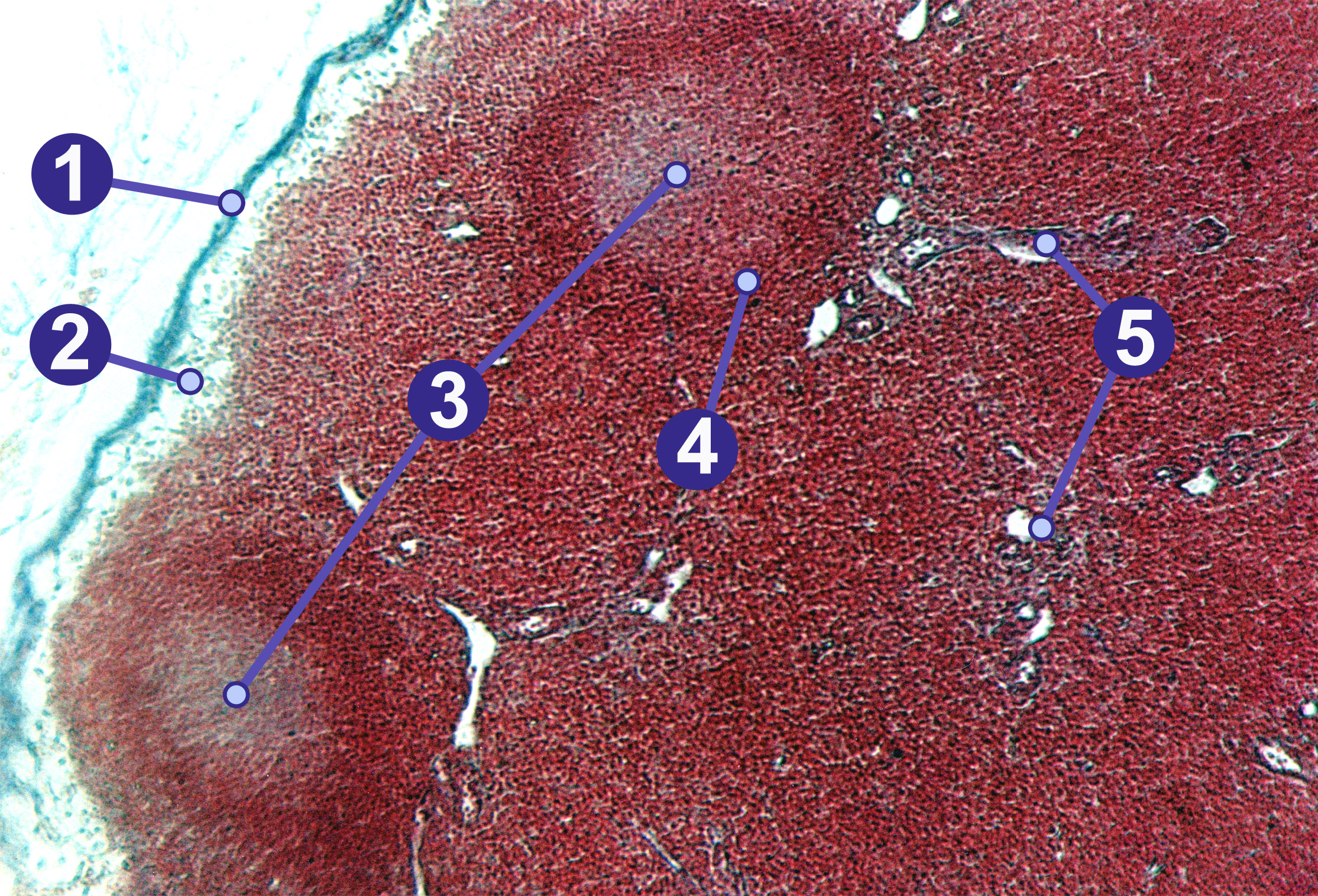 Lymph node, showing (1) capsule, (2) subcapsular sinus, (3) germinal centers, (4) lymphoid nodule, (5) trabeculae.